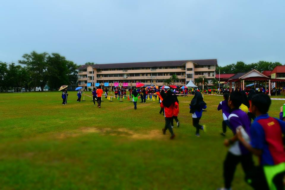 Acara Merentas Desa